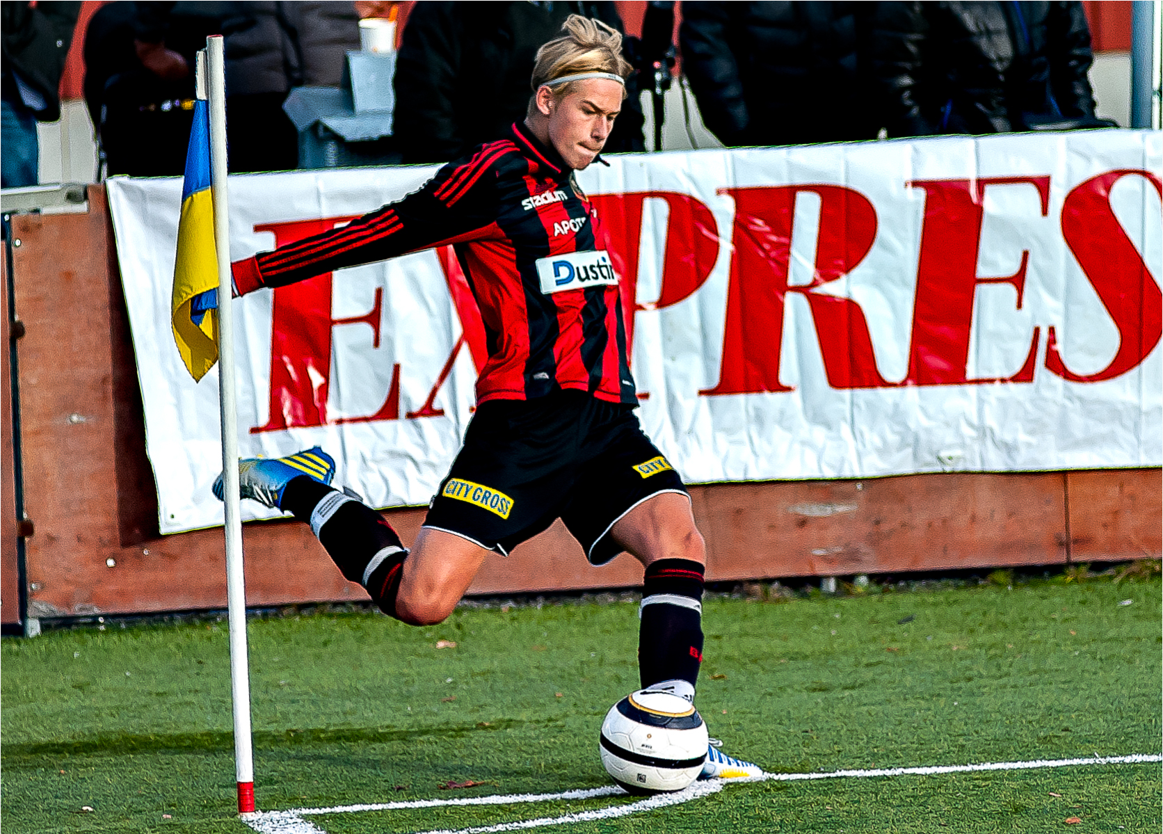 Felix Beijmo during a game between IF Brommapojkarna and AIK